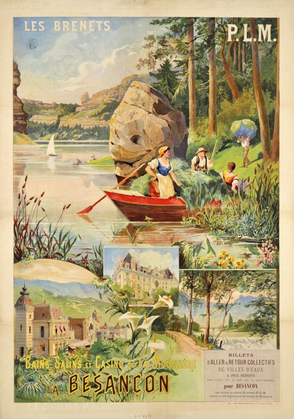 Poster of the former PLM railway company (France): Besancon Les Brenets.